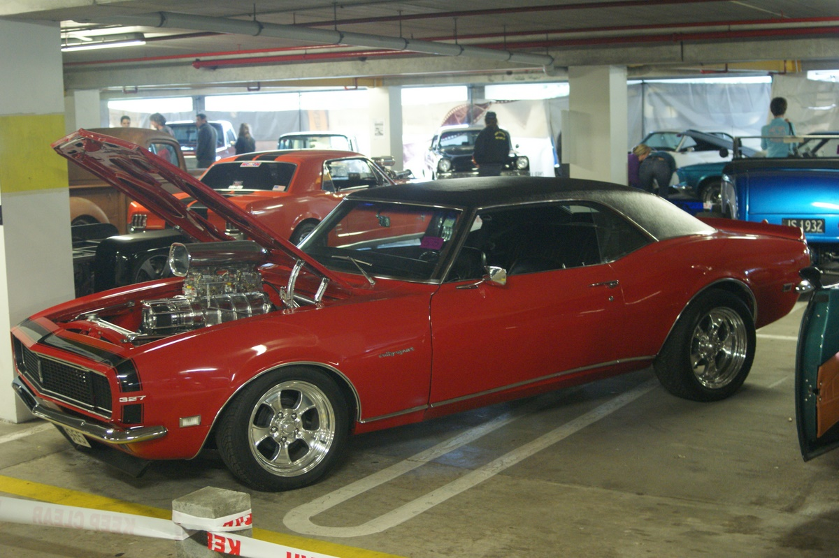 Hot Rod Show